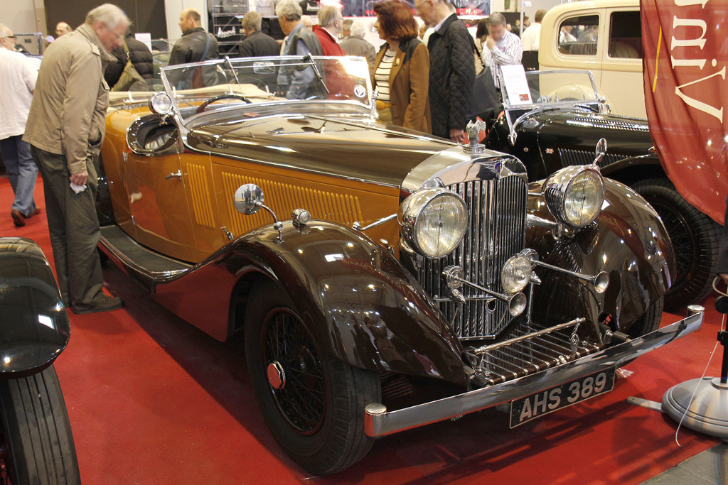 1937 Jensen S-Type Dual Cowl Phaeton